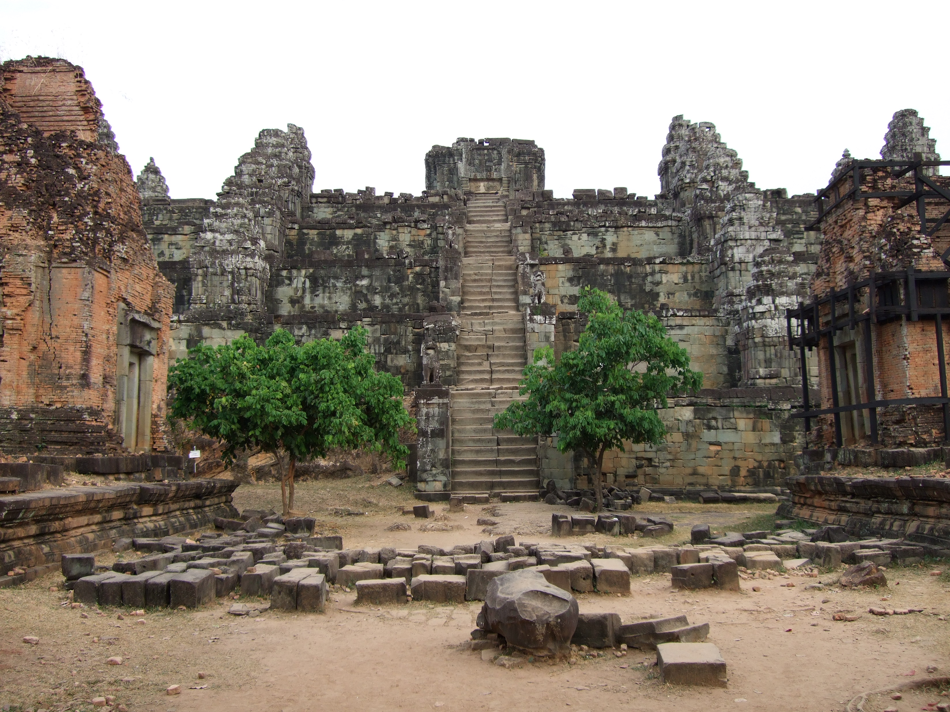 Phnom Bakheng in Angkor, Cambodia